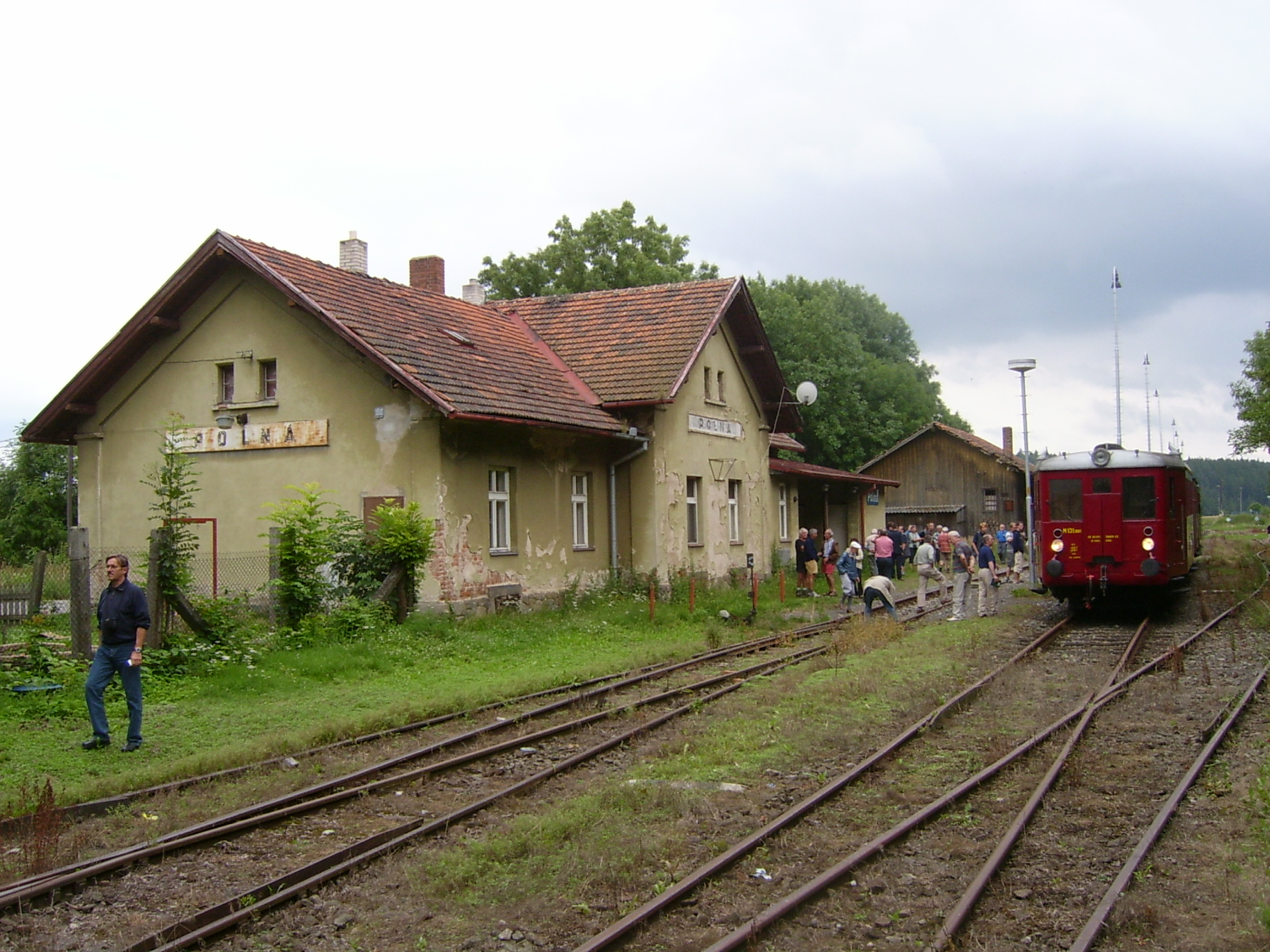 Train station in Polná, Czech Republic, at the end of a secondary line from Dobronín. No regular passenger trains run here since 1980s. This picture was taken during a railfan tour with a historical railcar in 2005.